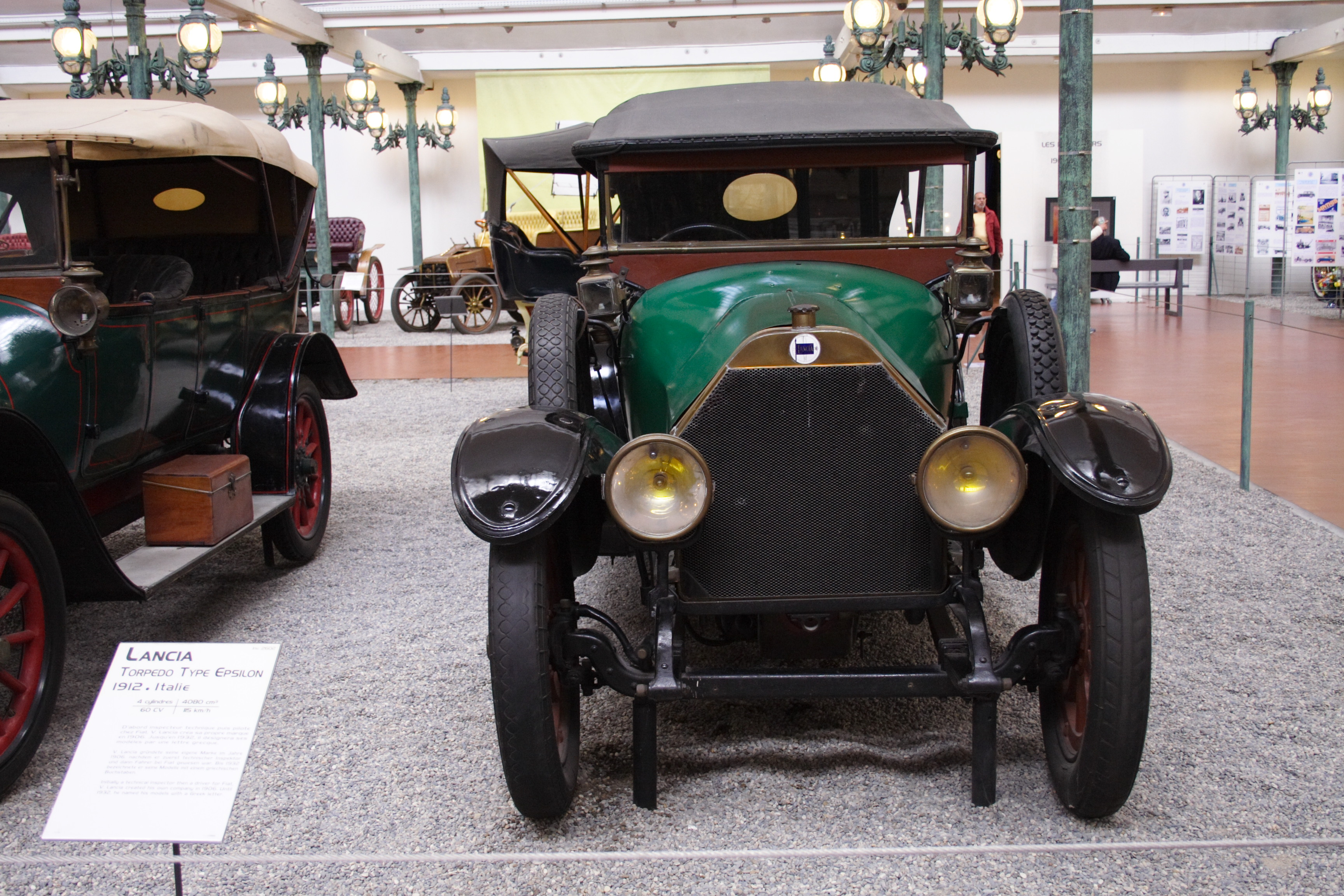 Lancia Torpedo Type Epsilon 1912 at the Musée National de l'Automobil(Mulhouse, France)